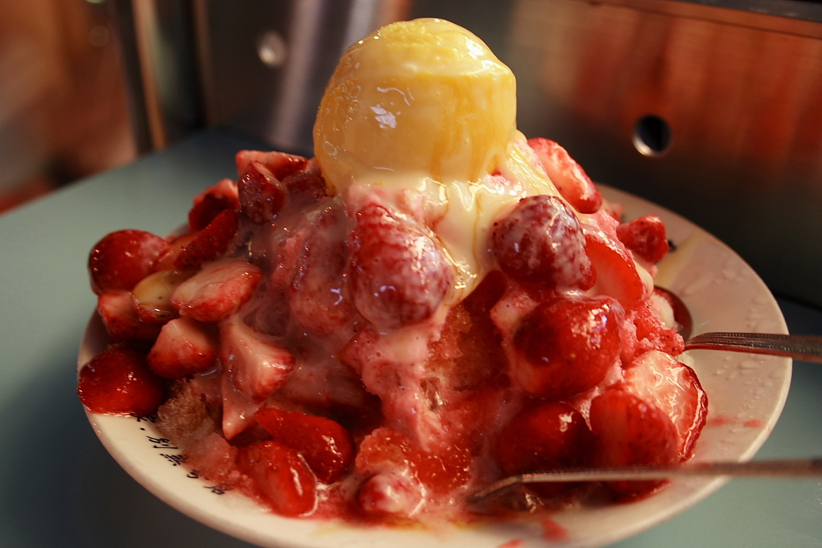 Ice strawberries